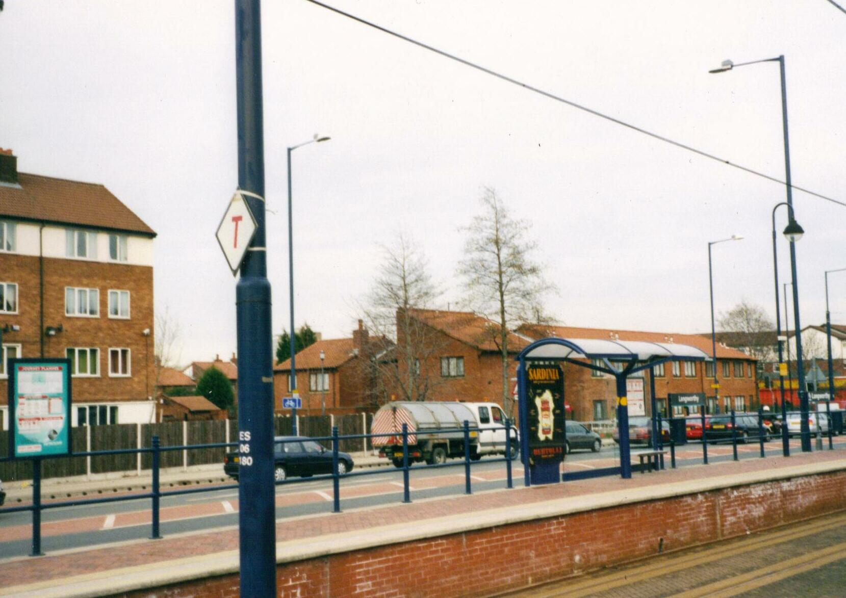 Langworthy tram stop 2004.